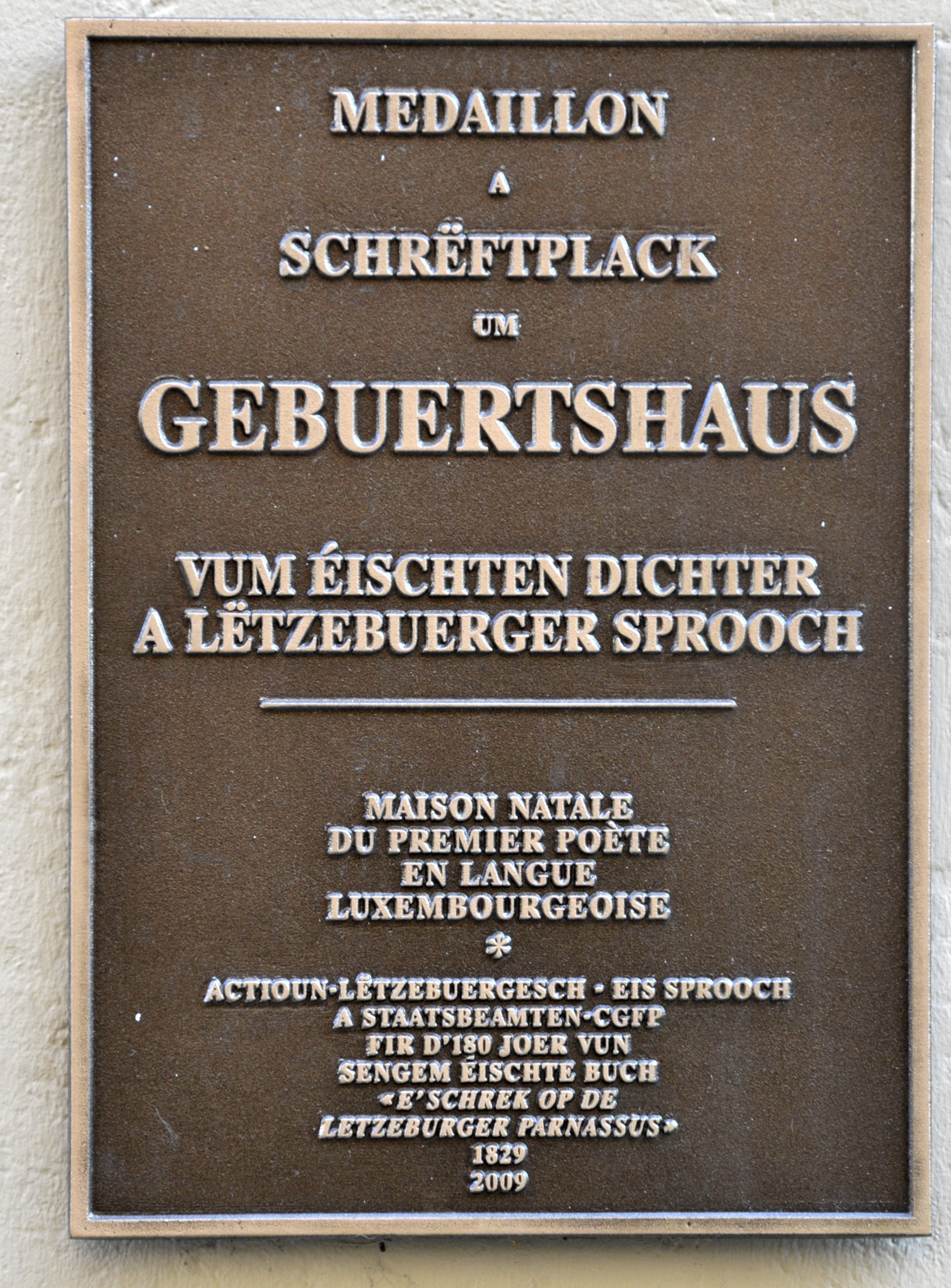 Luxembourg-City, 3, rue Chimay, where Antoine Meyer (1801-1857) was born